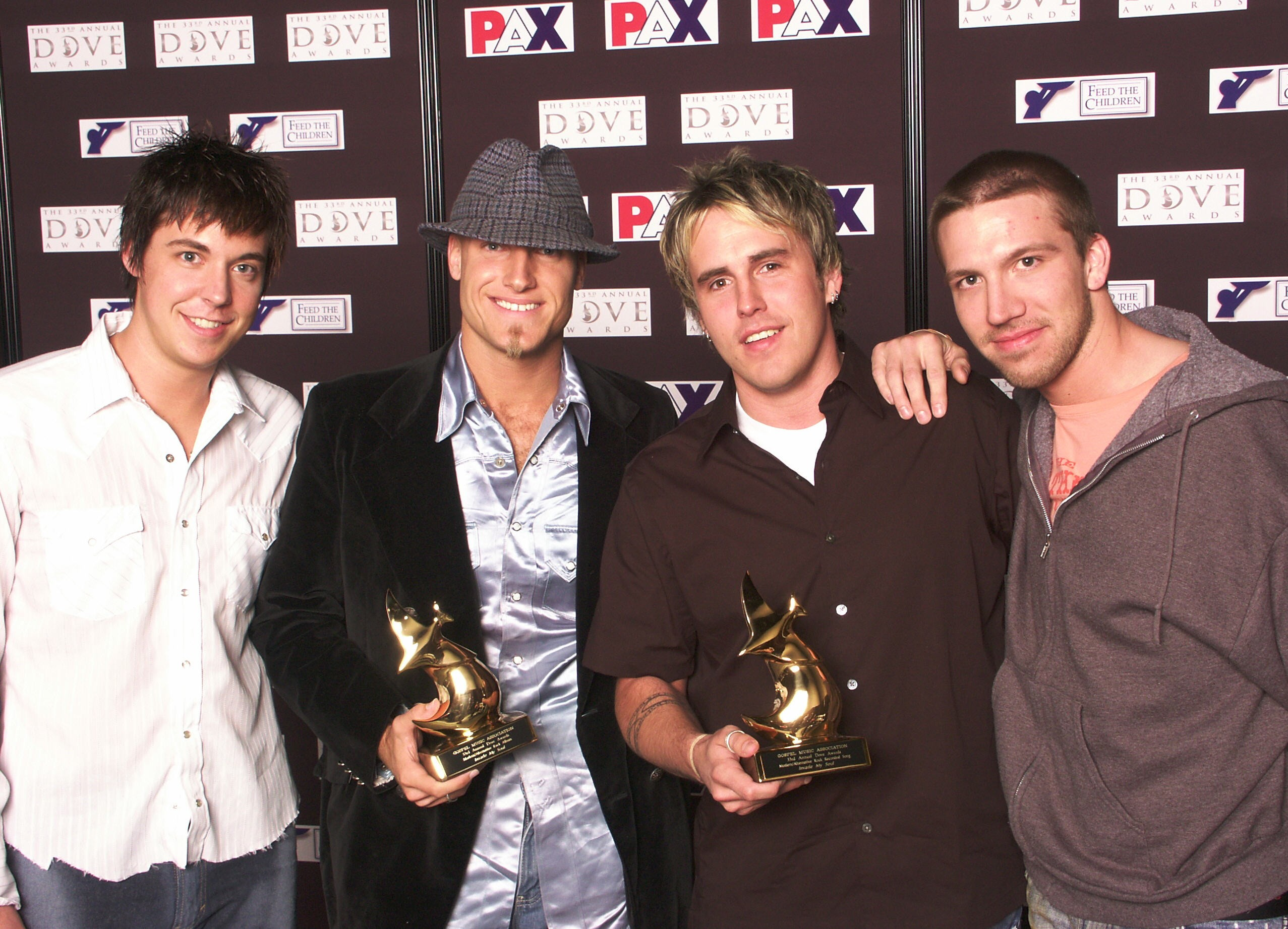 Personal photograph of By the Tree taken by the mother of Chuck Dennie, released to Wikipedia under GDFL.